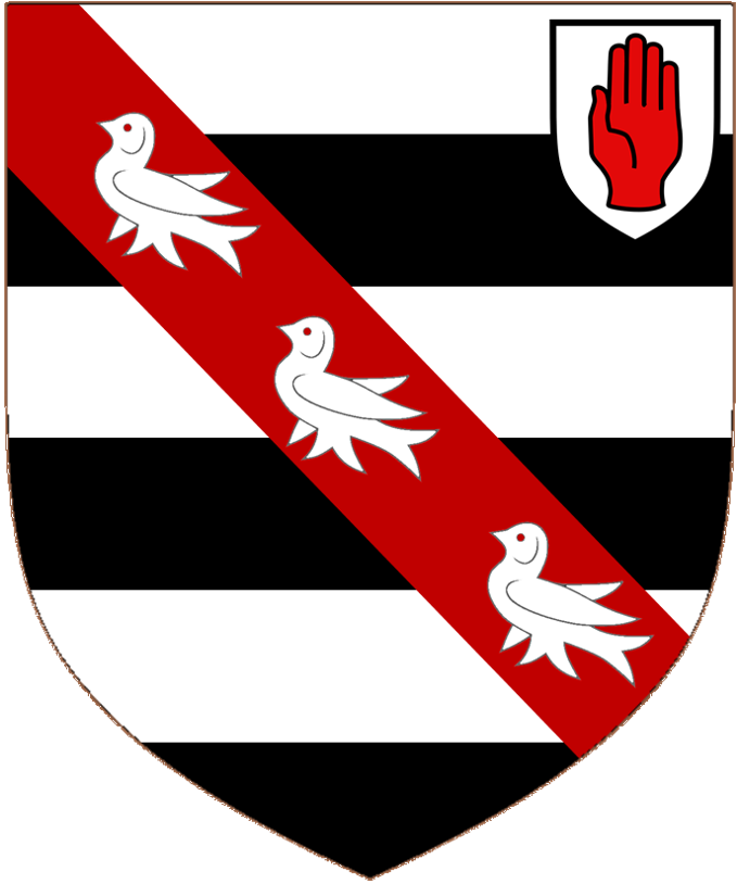 Shield of arms of the Burdett baronets of Burthwaite